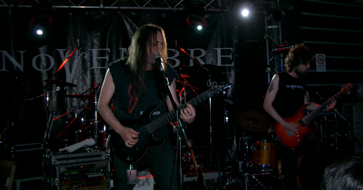 The metal band Novembre playing in Roncade, Treviso, Italy